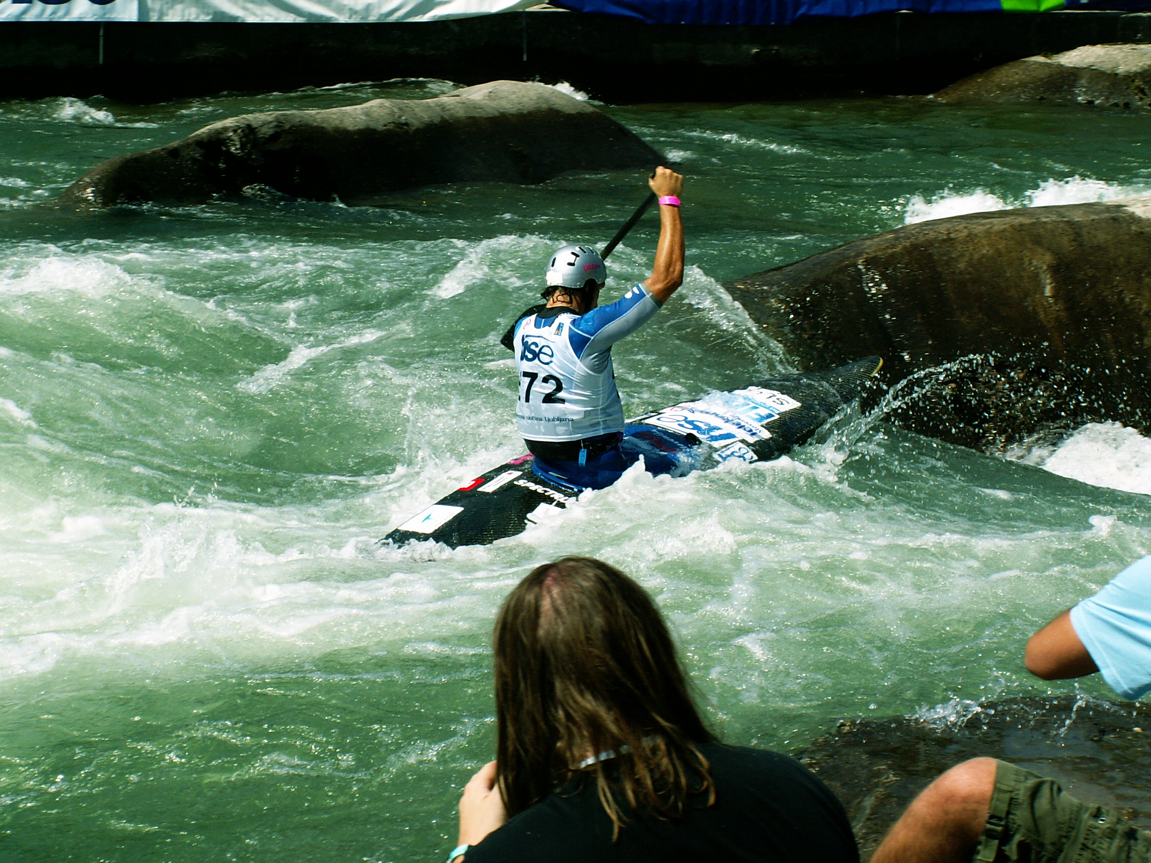 Dejan Stevanovic, slovenian whitewater canoeist on course in Tacen, Slovenia.